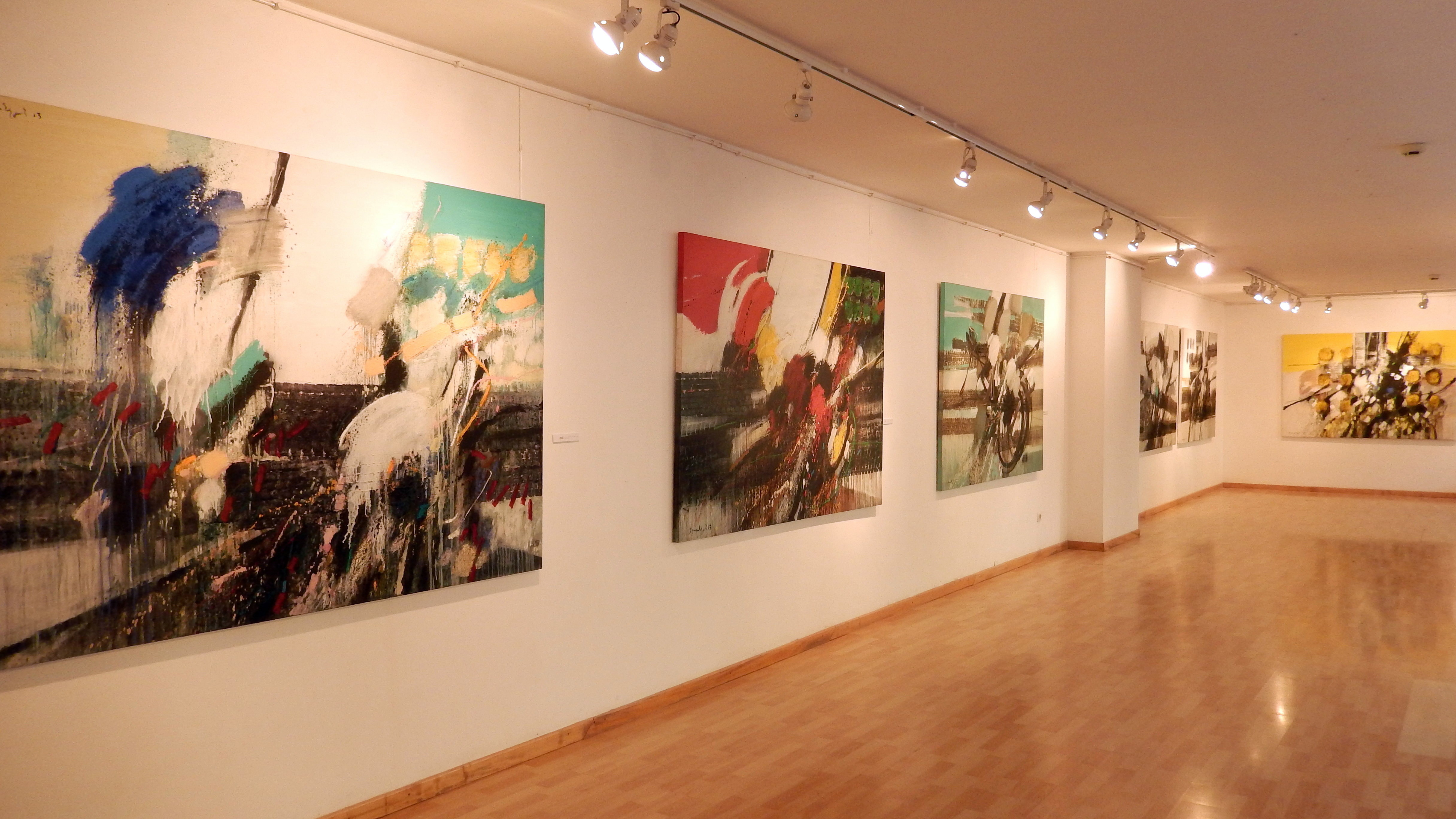 Gagik Ghazanchyan's exhibition